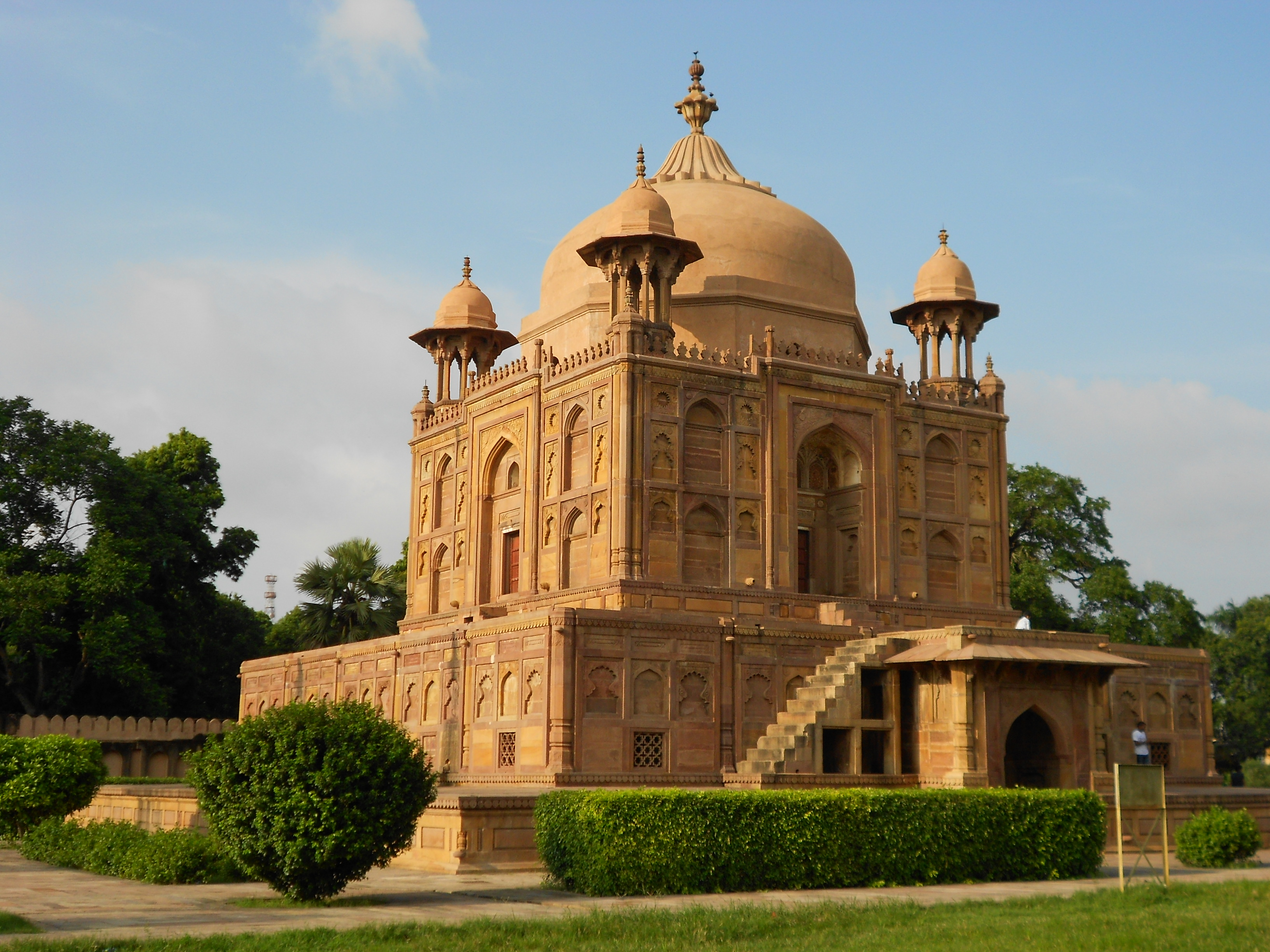 One of the three sandstone mausoleums within the walled garden, Khusro bagh, at Allahabad; this one belongs to Khusrau Mirza's sister, Nisar Begum.